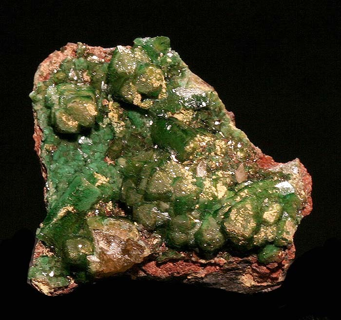 Adamite (Var.: Cuprian Adamite), Ferrilotharmeyerite, Beaverite-(Cu) Locality: Tsumeb Mine (Tsumcorp Mine), Tsumeb, Otjikoto (Oshikoto) Region, Namibia (Locality at ) Size: 3.4 x 2.9 x 1.3 cm. There are numerous gemmy, deep green crystals of cuprian adamite, some doubly terminated to about 1 cm in length! The crystals have inclusions of Ferrilotharmeyerite which lends them color. Sprinkling them are sub-mm sized, but bright yellow beaverite. Ex. Willy Israel Collection.